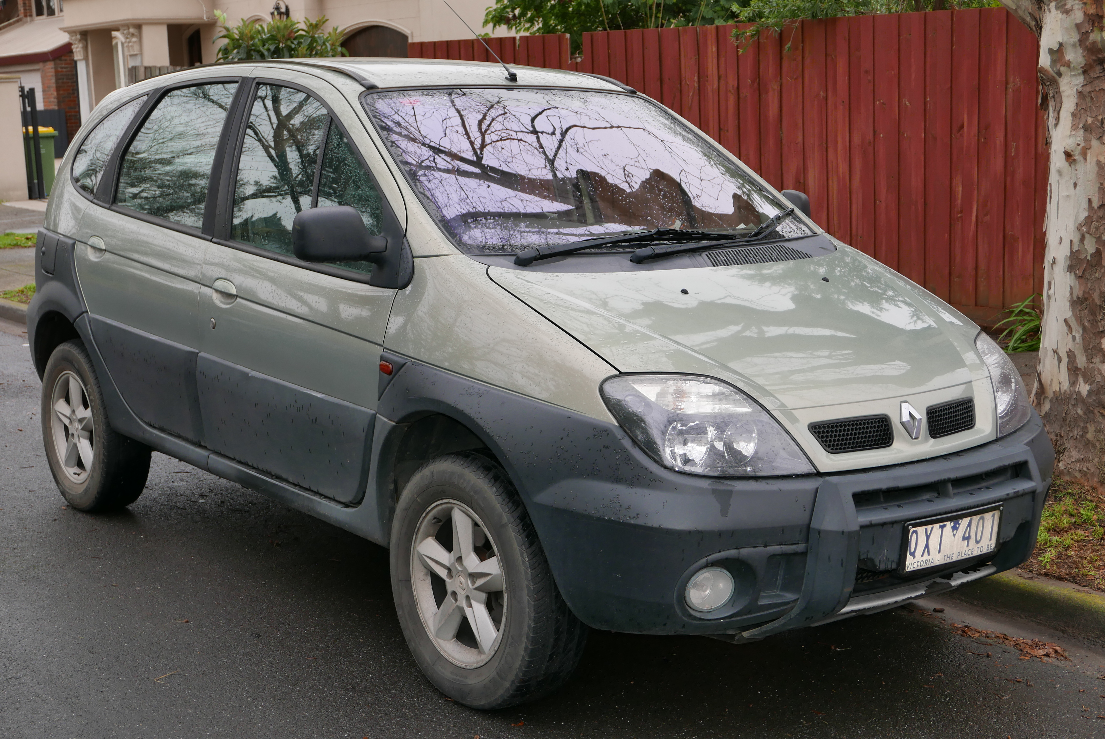 2001 Renault Scénic RX4 (J64 Phase 2) Privilege hatchback. Photographed in Alphington, Victoria, Australia. Vehicle registration enquiry results Jurisdiction Victoria Registration QXT401 Chassis code VF1JAB30E10603992 Engine code D014886 Compliance date 2001-06 Year of manufacture 2001